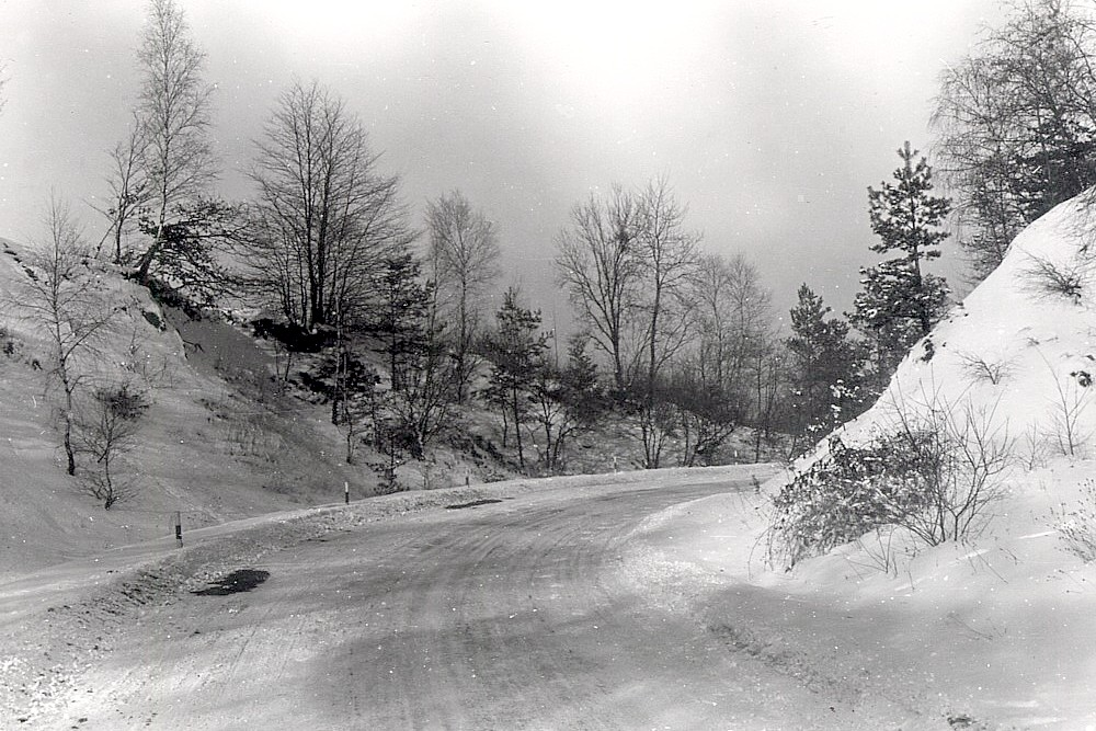 Pass called Durchbruch crossing near the crest Egge of the Wiehengebirge near Preußisch Oldendorf (Germany) built in 1926 in the context of unemployment